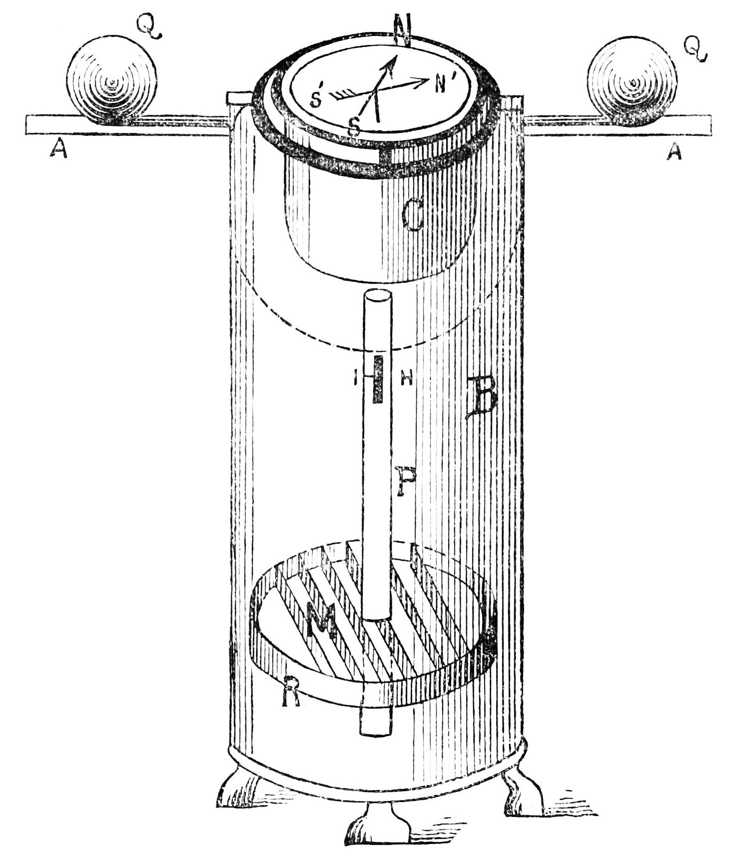 The compensating binnacle